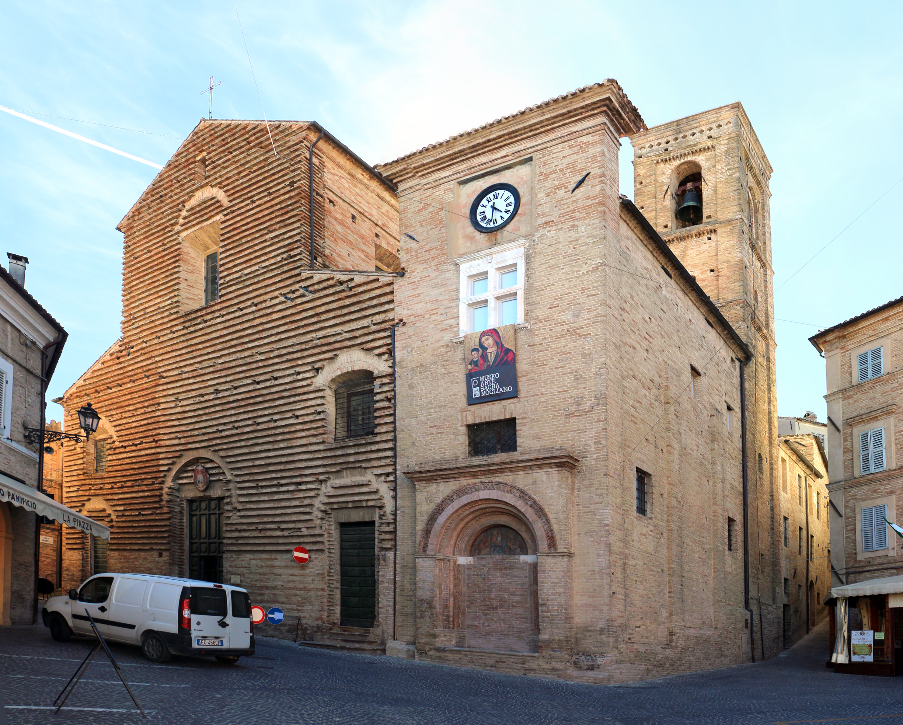 Mogliano